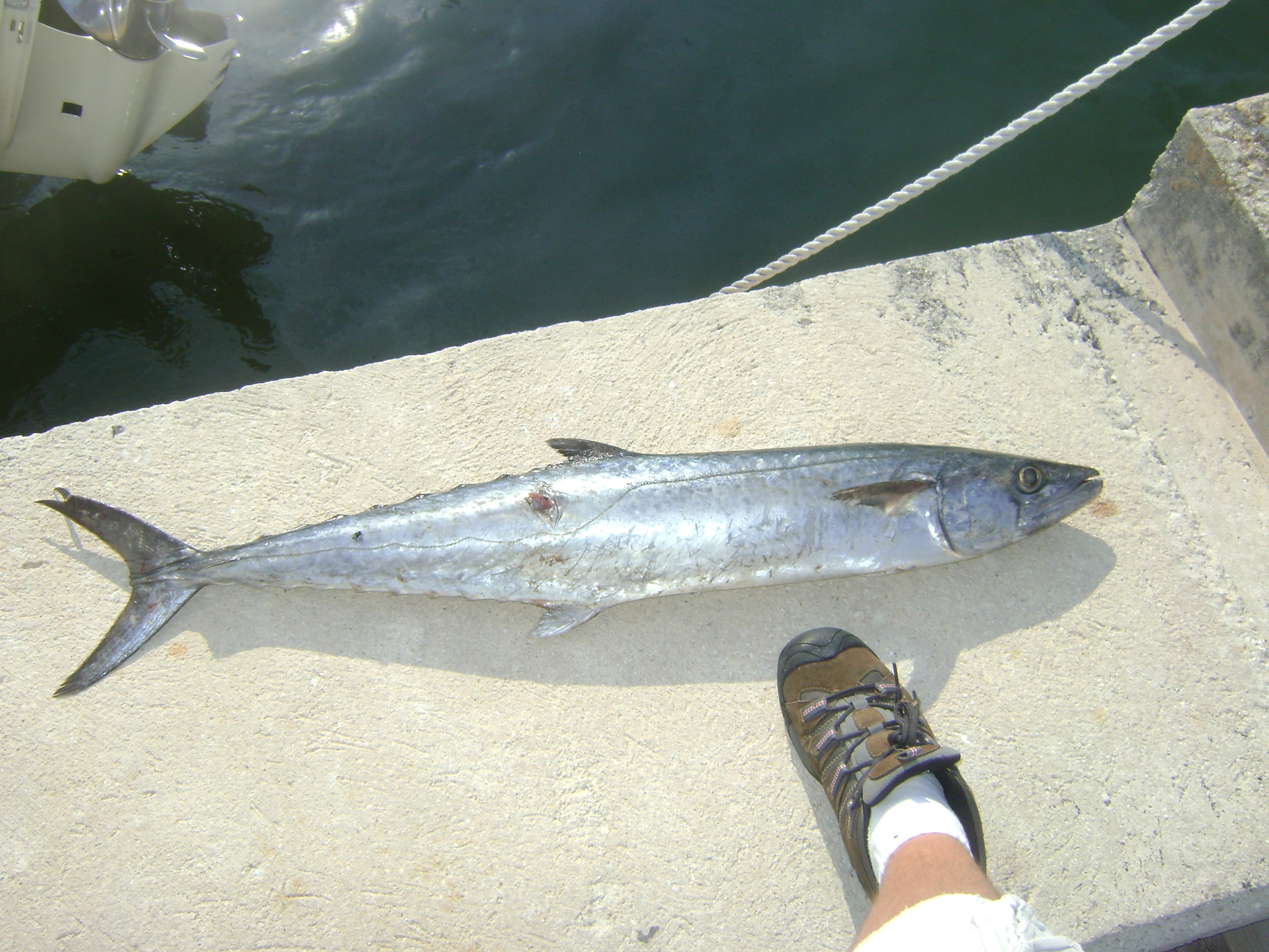 King Mackerel. The fish was a male and weighed about 13 pounds.